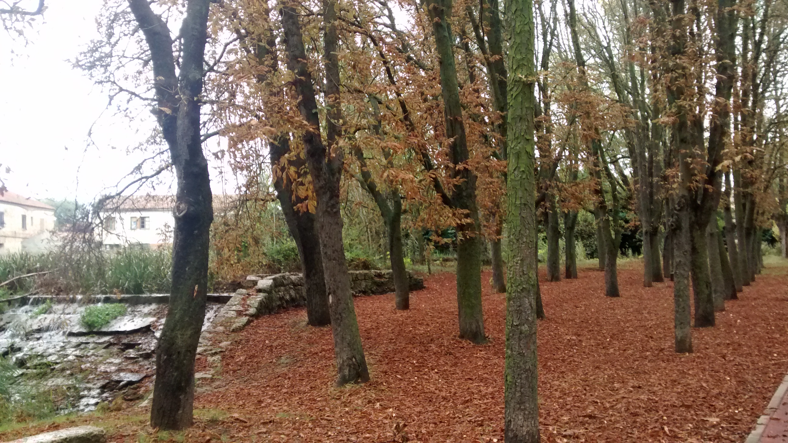 Parque del Sotillo de los Canónigos en otoño